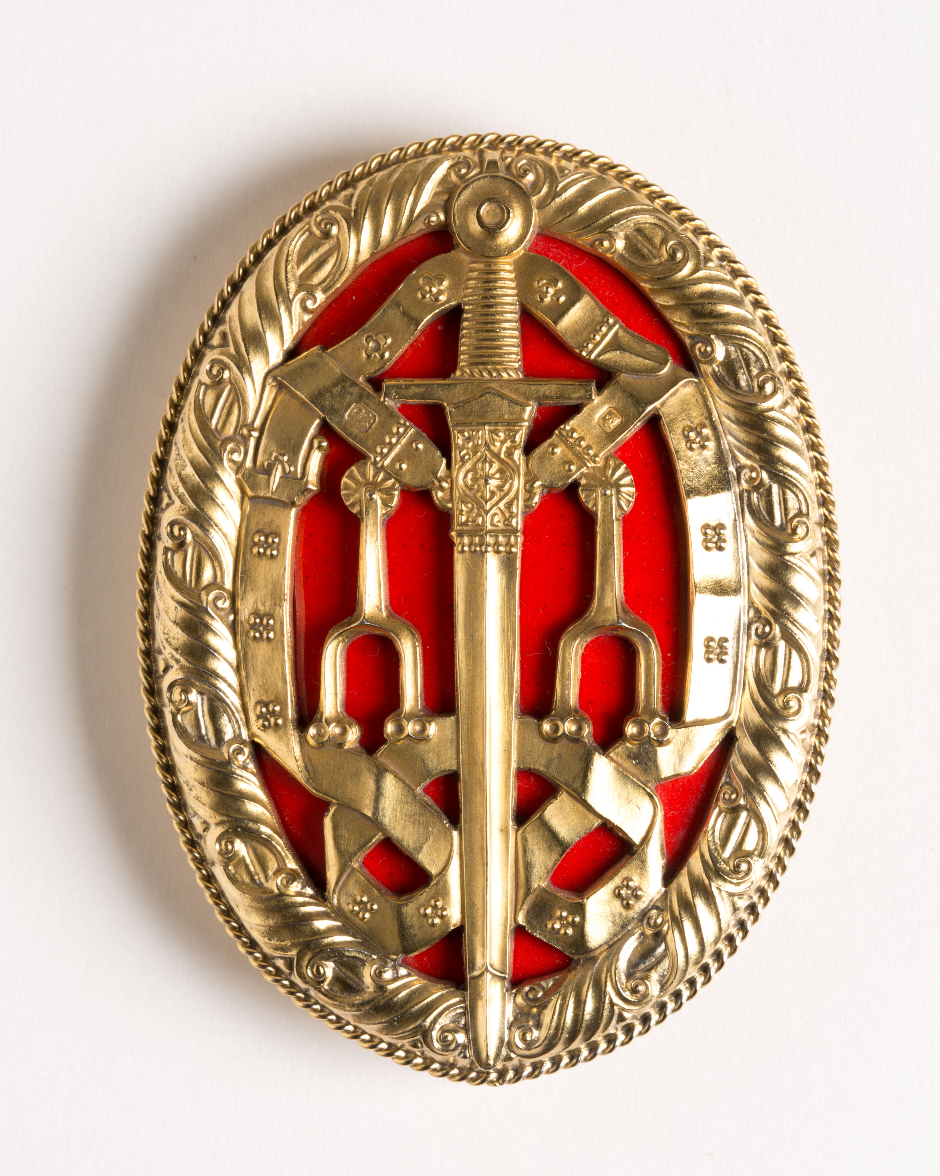 Knight Bachelor's Badge Awarded to Honourable Sir T Alport Barker, MLC (1878-1956) for public service to Fiji. (He was also made Commander of the Most Excellent Order of the British Empire) Upon an oval medallion of vermilion, enclosed by a scroll a cross-hilted sword belted and sheathed, pommel upwards, between two spurs, rowels upwards, the whole set about with the sword belt, all gilt.